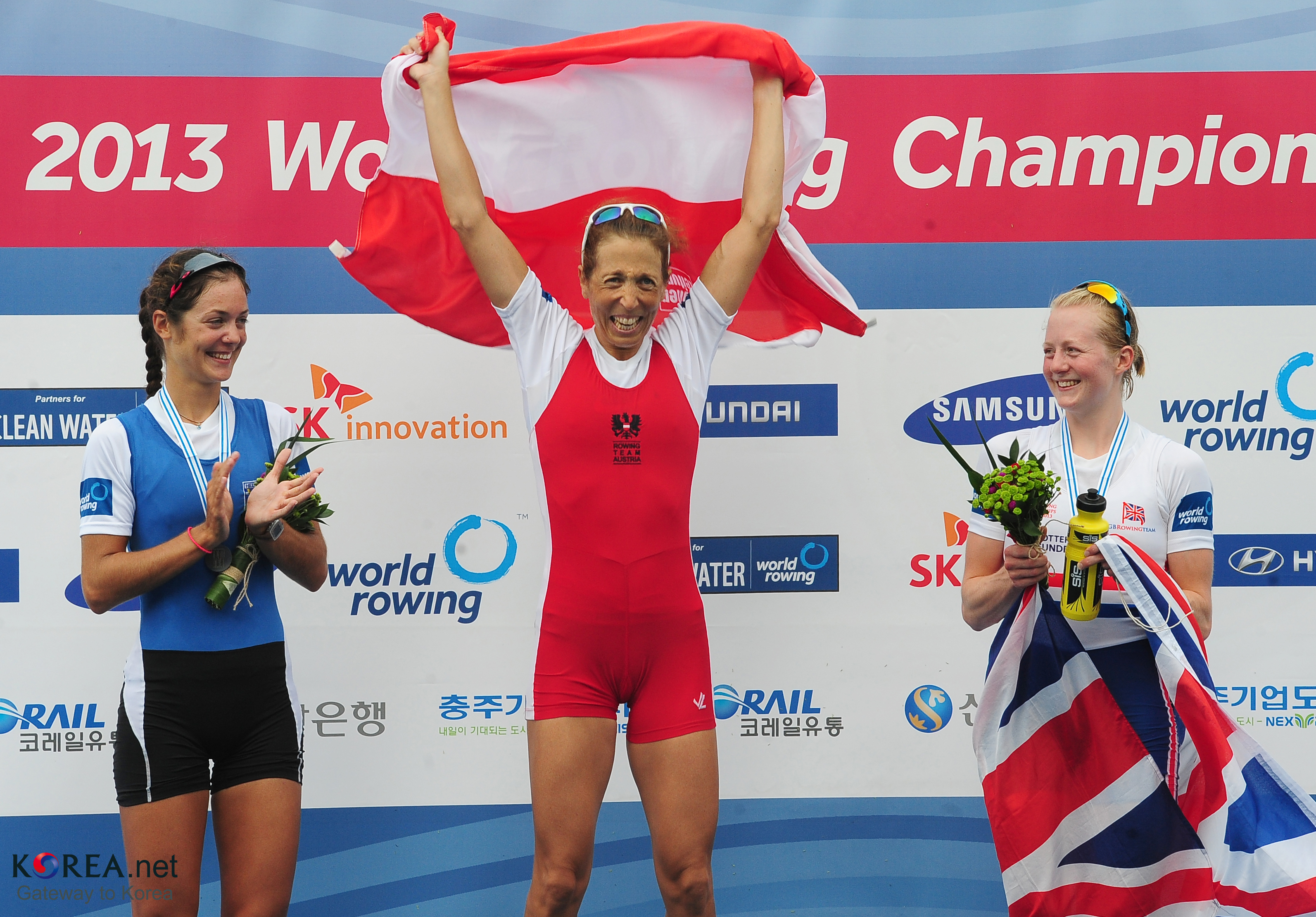 2013 Chungju World Rowing Championships